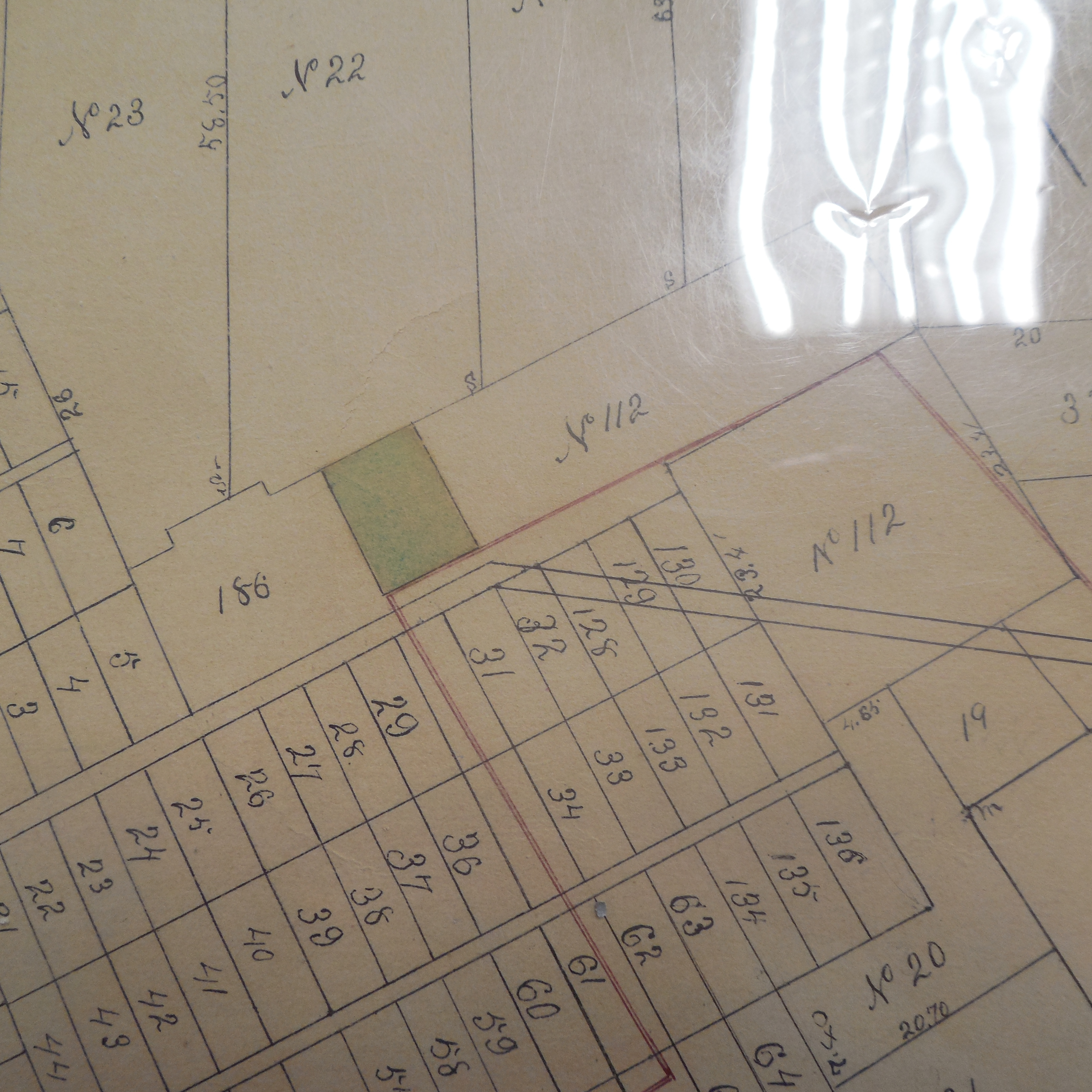 A partial capture of a "Copy of Map of Burlington To its Original boundaries From actual survey 1798". The map is generally oriented with north at the top. Highlighted in green at the center of the map is where the University Green is located today. Burlington Lots, 1798 The linear thoroughfare adjacent to the south, east, and west of the University Green is the "Winooski Turnpike", known today as Main St. and/or Williston Rd. A map covering a greater area is linked from the included image (click on 'More Details', look right). This map was uploaded to illustrate lots No. 112, 130, 129, 128, & 32 which parcel the land where Morrill Hall at the University of Vermont is eventually to be built by the year 1907. A copy of a complementary document, the "Copy of Division of Lands in Burlington" (obtained from the UVM Library Special Collections Department) was developed during a "proprietors' meeting" that took place on 16-20 June 1798, states that Lots "set to Ira Allen" include the aforementioned numbered parcels (in addition to many others). A March 1836 "Map of Burlington in Vermont" (by John Johnson, Surveyor General) illustrates the same five parcels, which abut the intersection of Main St./Williston Rd. and the southeastern corner of the University Green (where today exists "University Place" and Morrill Hall). This map serves as a testament that Ira Allen did originally own the land on which Morrill Hall was built upon.